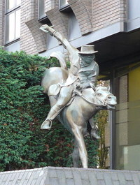 John Jorrocks at East Croydon Bronze sculpture by John Mills.